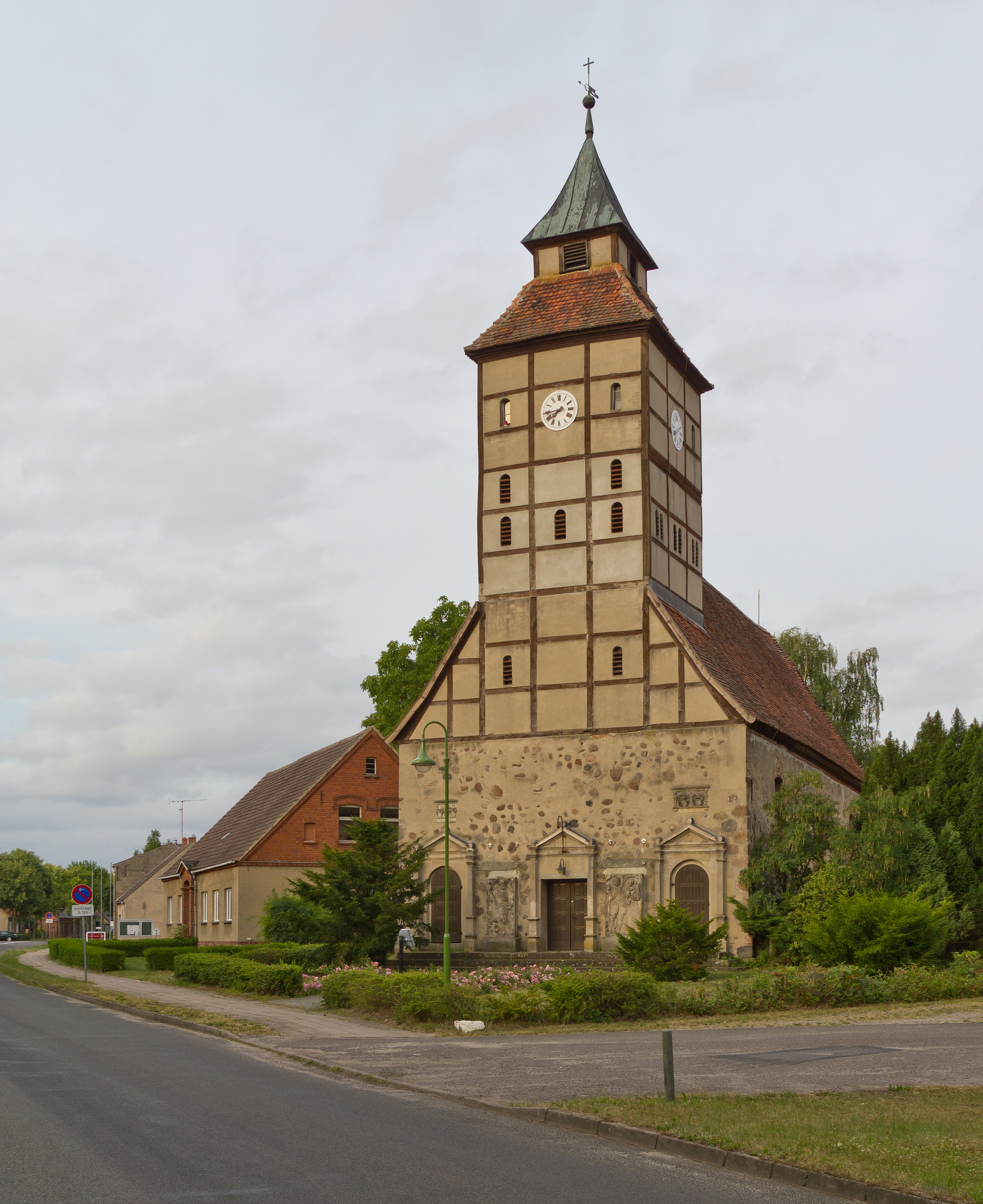 Church in Kletzke/Plattenburg, Brandenburg, Germany.